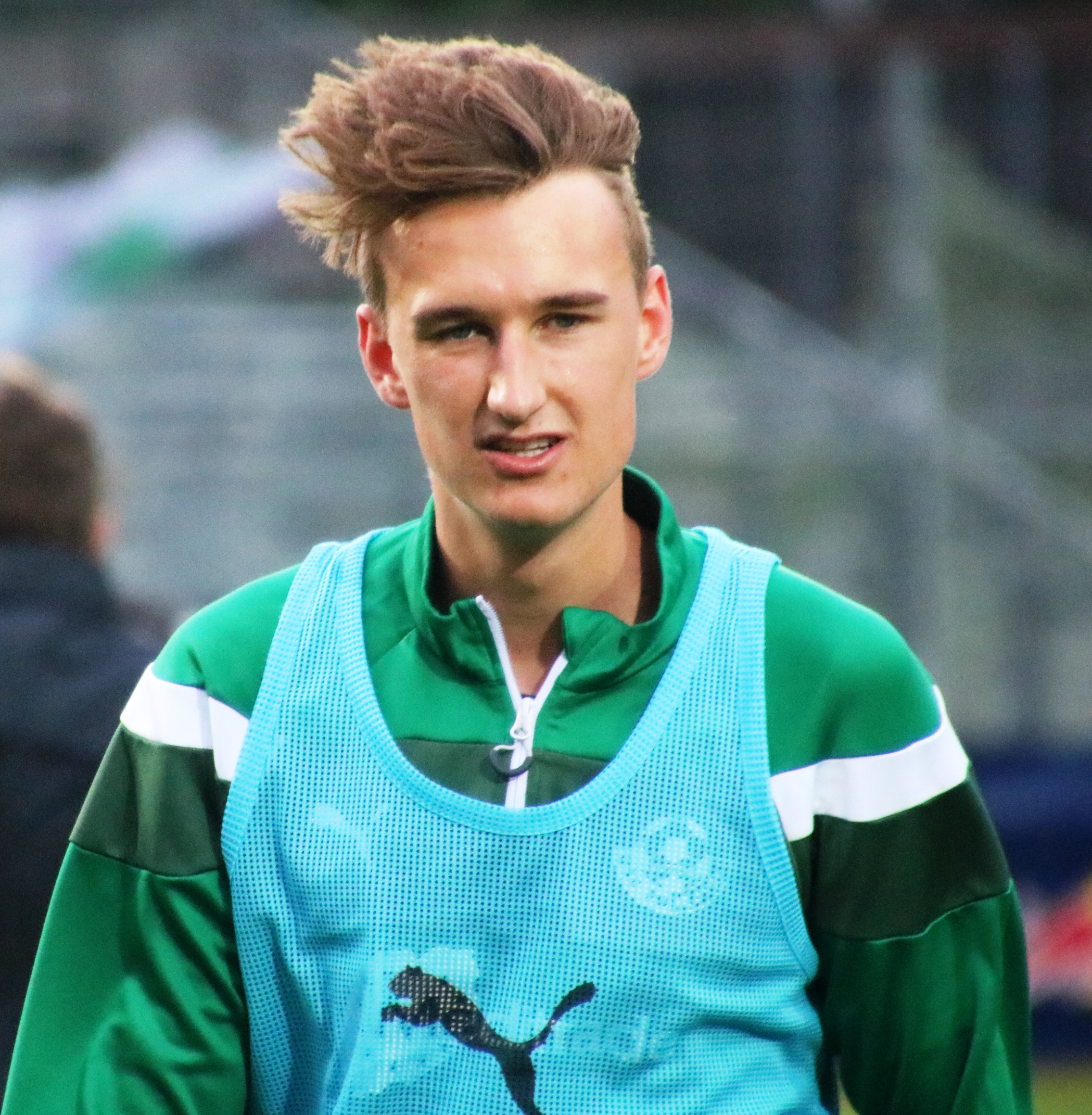 League match Austria 2nd league